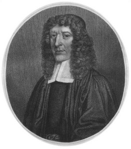 Ralph Cudworth.